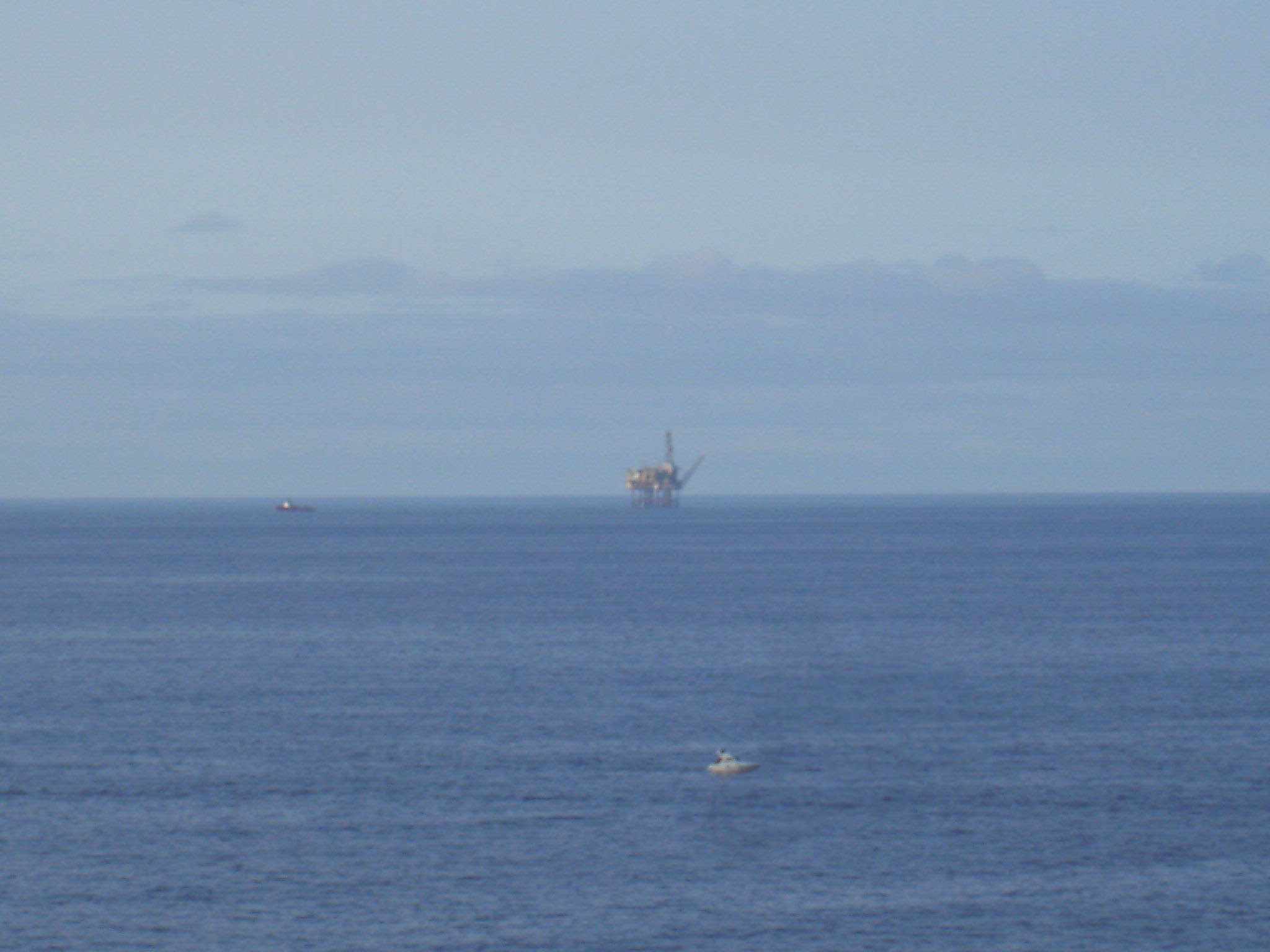 Oil platform Gaviota